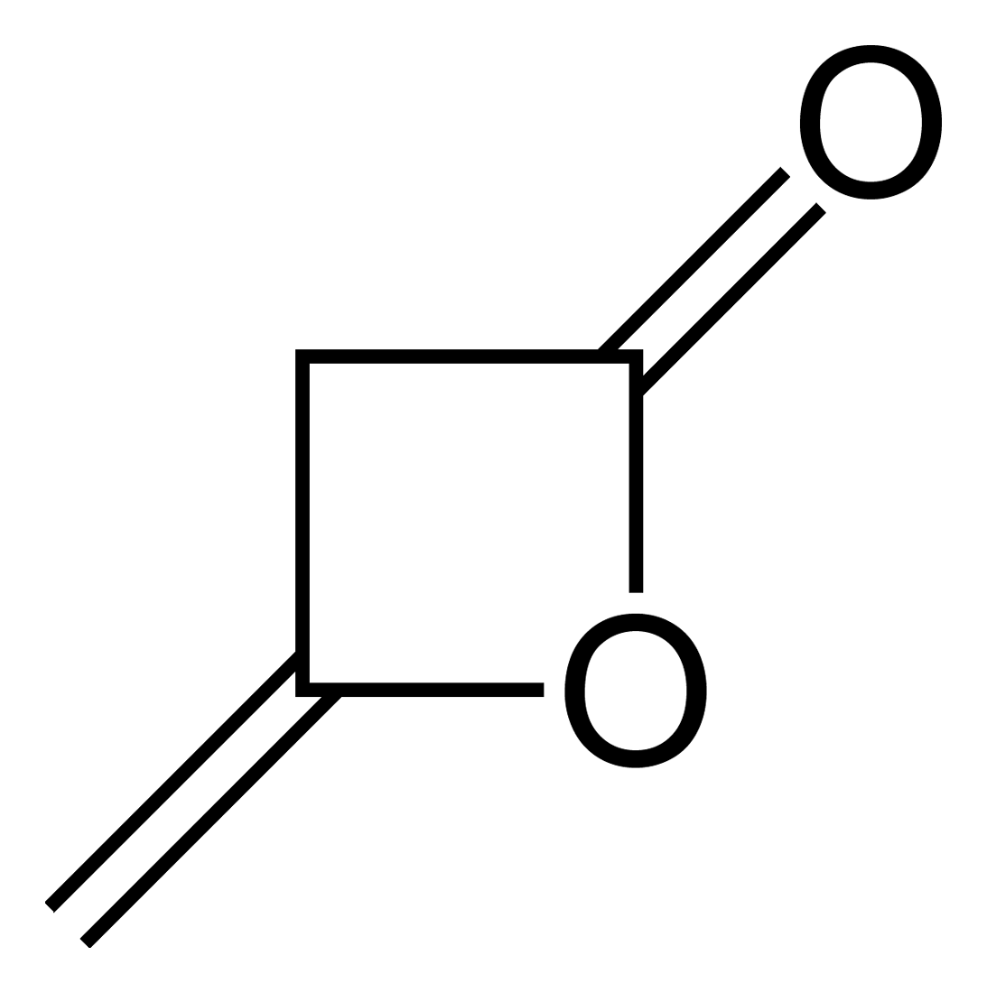 Skeletal formula of the diketene molecule, C4H4O2.